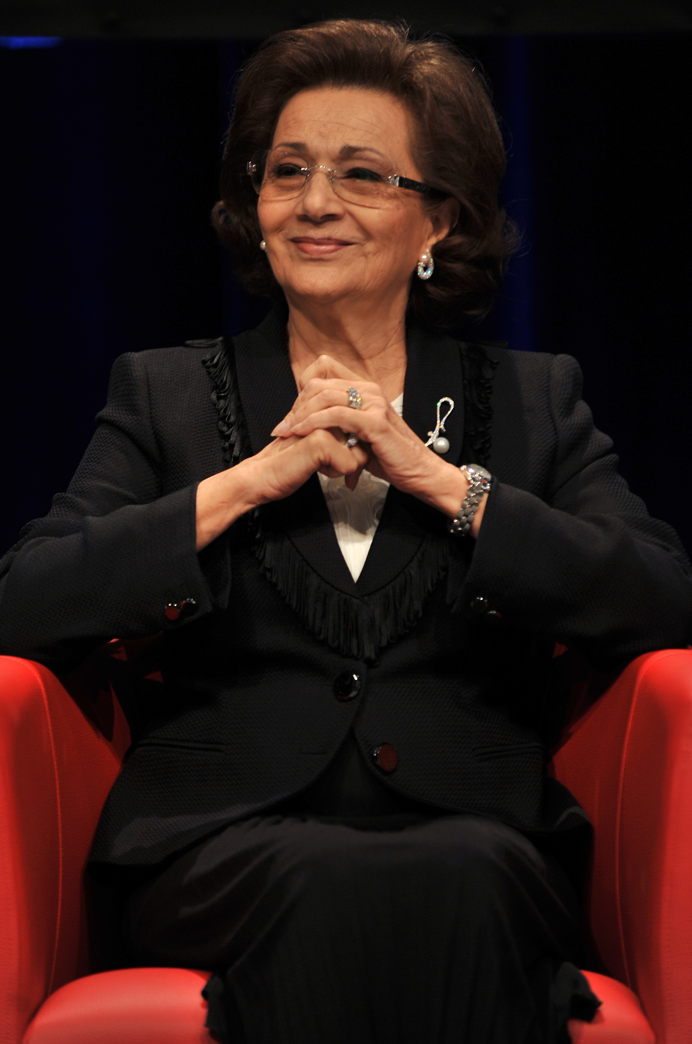 Cancer in Developing Countries - Facing the Challenge Scientific Forum opening session at the IAEA 54th General Conference. Vienna, Austria, 21 September 2010. Mrs. Susanne Mubarak, First Lady of Egypt Copyright: IAEA Imagebank Photo Credit: Dean Calma/IAEA